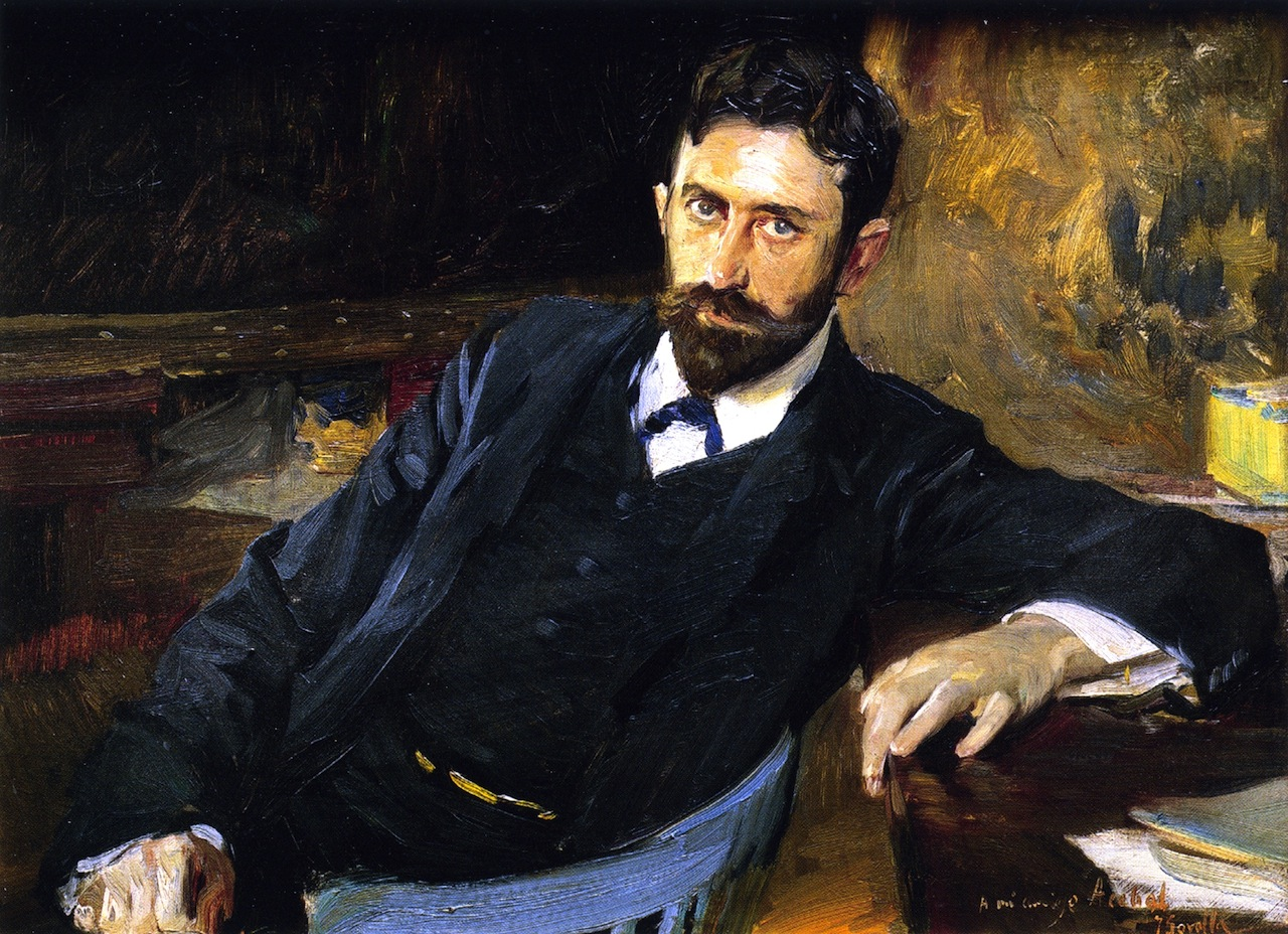 Francisco Acebal.